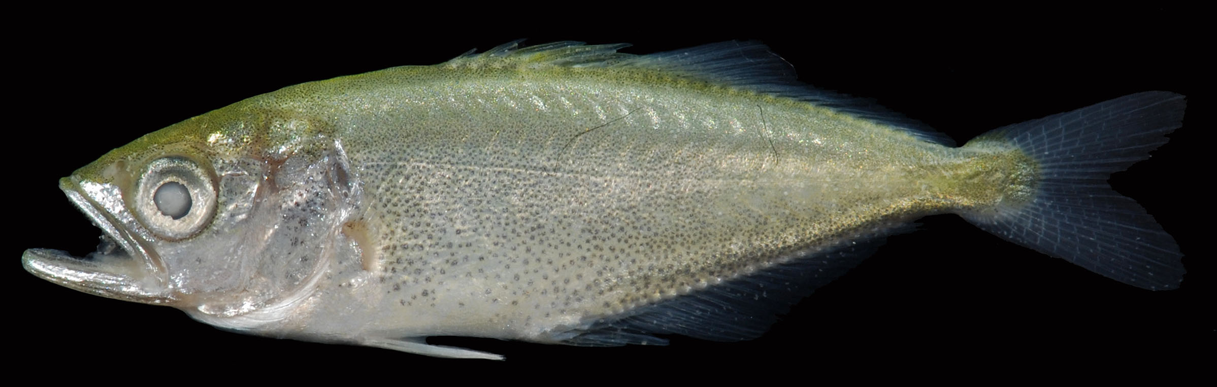 Leatherjacket, Oligoplites saurus, 27 mm SL. Pine Knoll Shores, Carteret County, NC - 09/16/17. Photo by Robert Aguilar, Smithsonian Environmental Research Center.